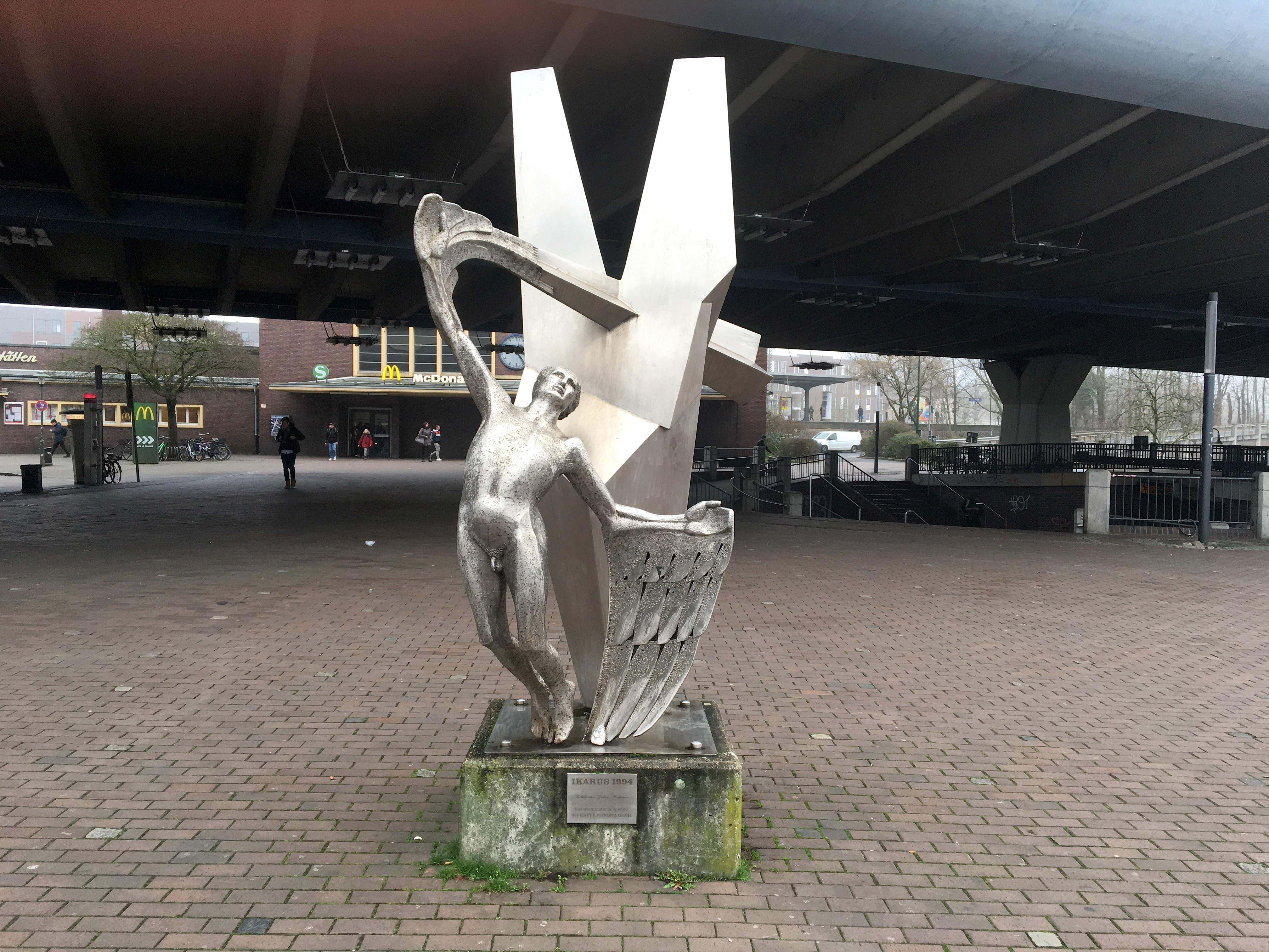 Sculpture of Icarus on the Heubesstrasse in Benrath, Düsseldorf.